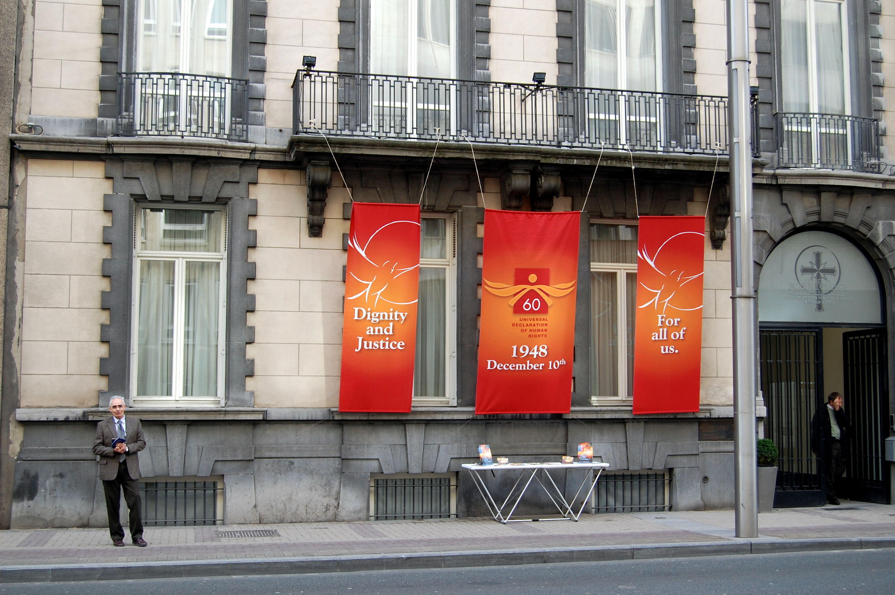 Image from the Brussels "Anonymous" protests against Scientology at the Brussels Stock Exchange.